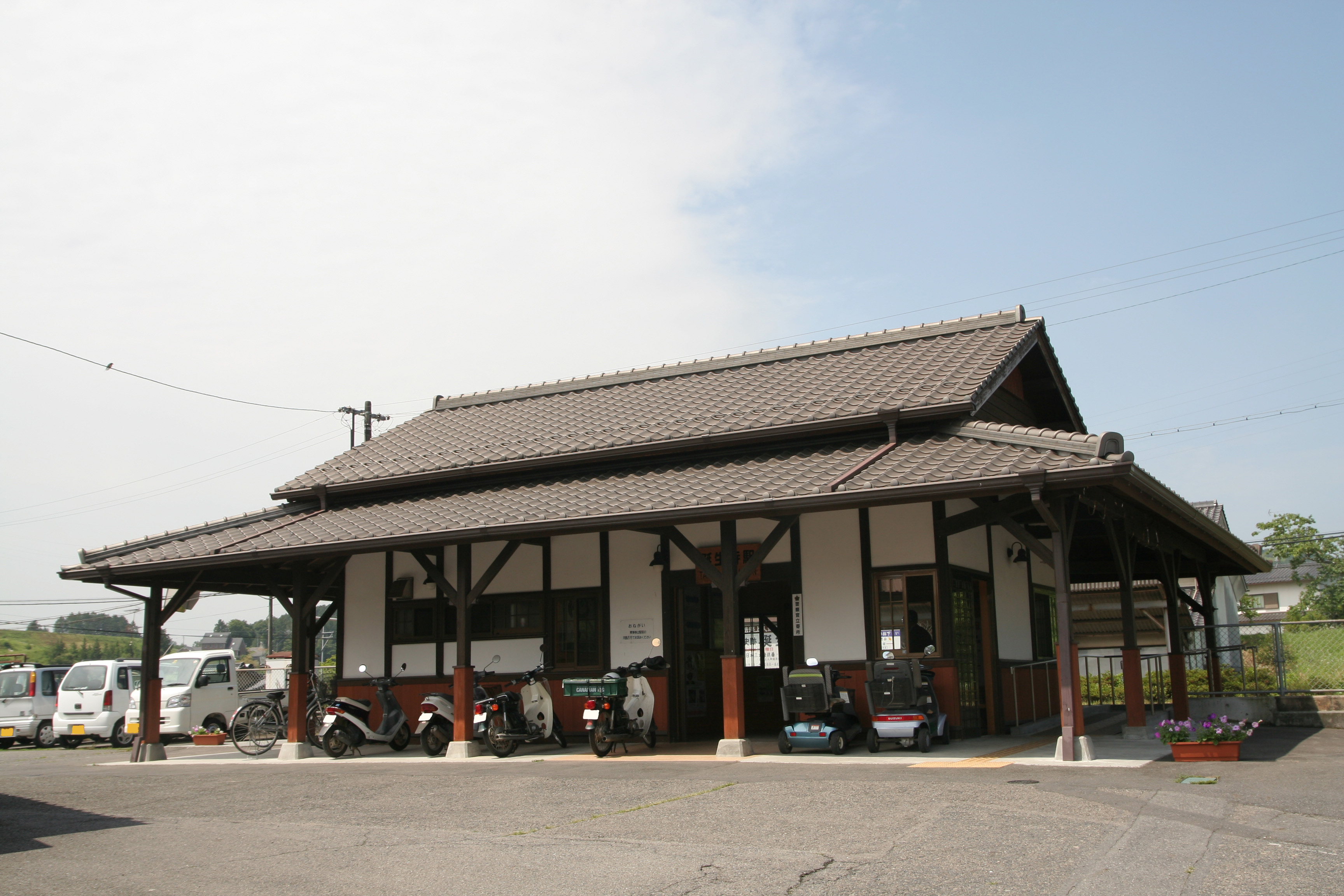 West Japan Railway Company Tsuyama Line tanjyoji station